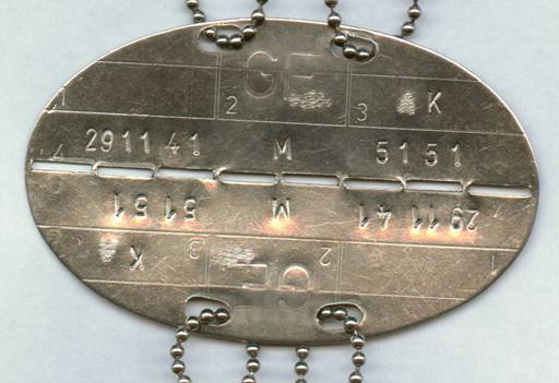 Military identity disk (“dog tag”) of the German Bundeswehr (1961)